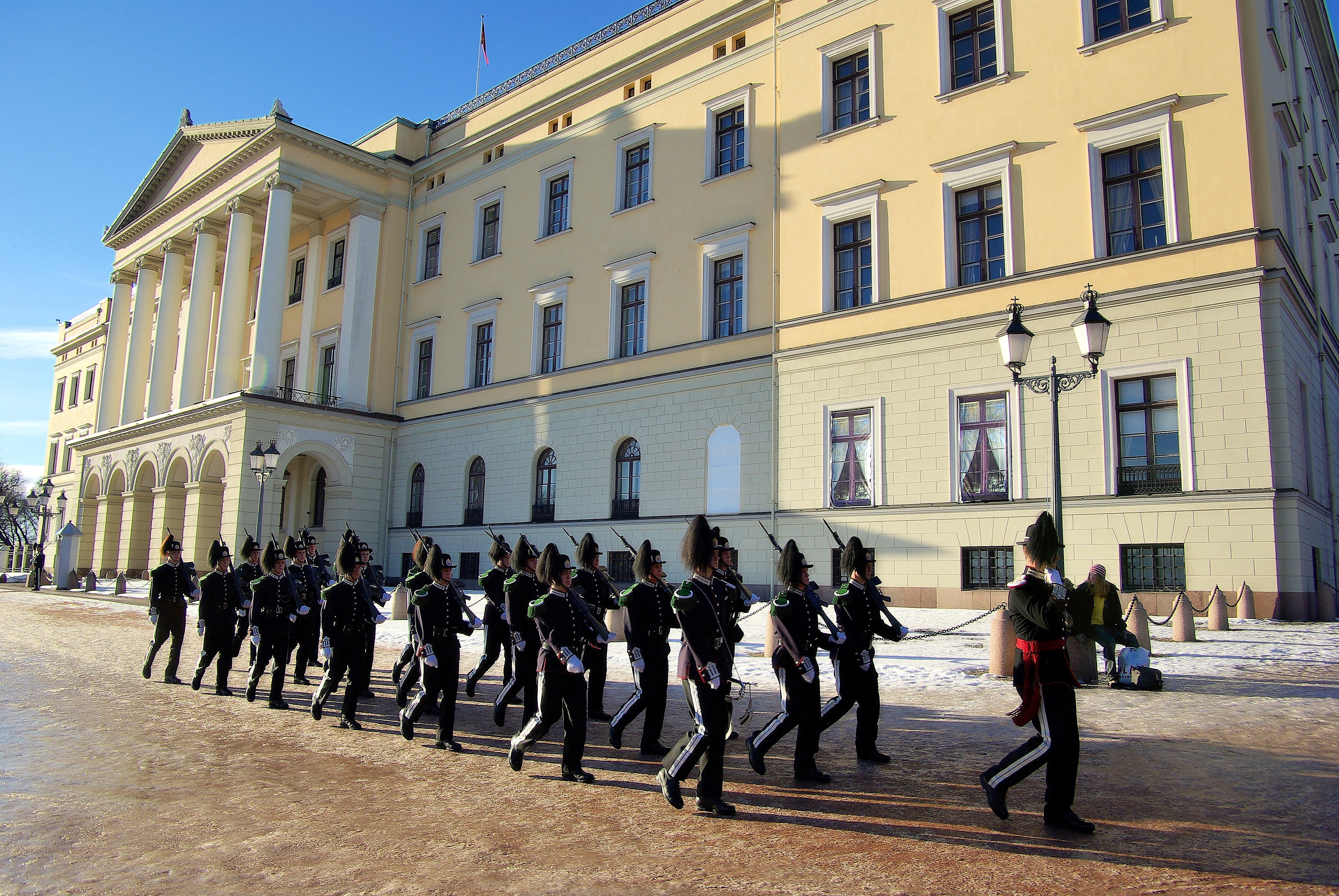 Changing of the guards (Category:Hans Majestet Kongens Garde) at the Royal Castle (category:Slottet) in Oslo, Norway.